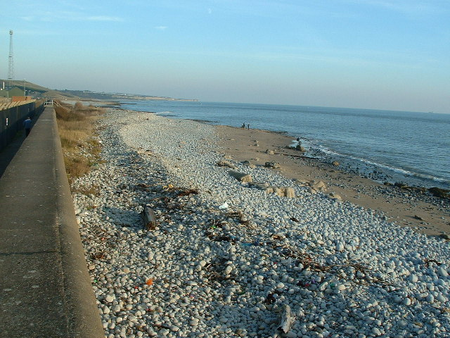 Sea Wall from Breaksea Point. The sea wall protects Aberthaw Power Station